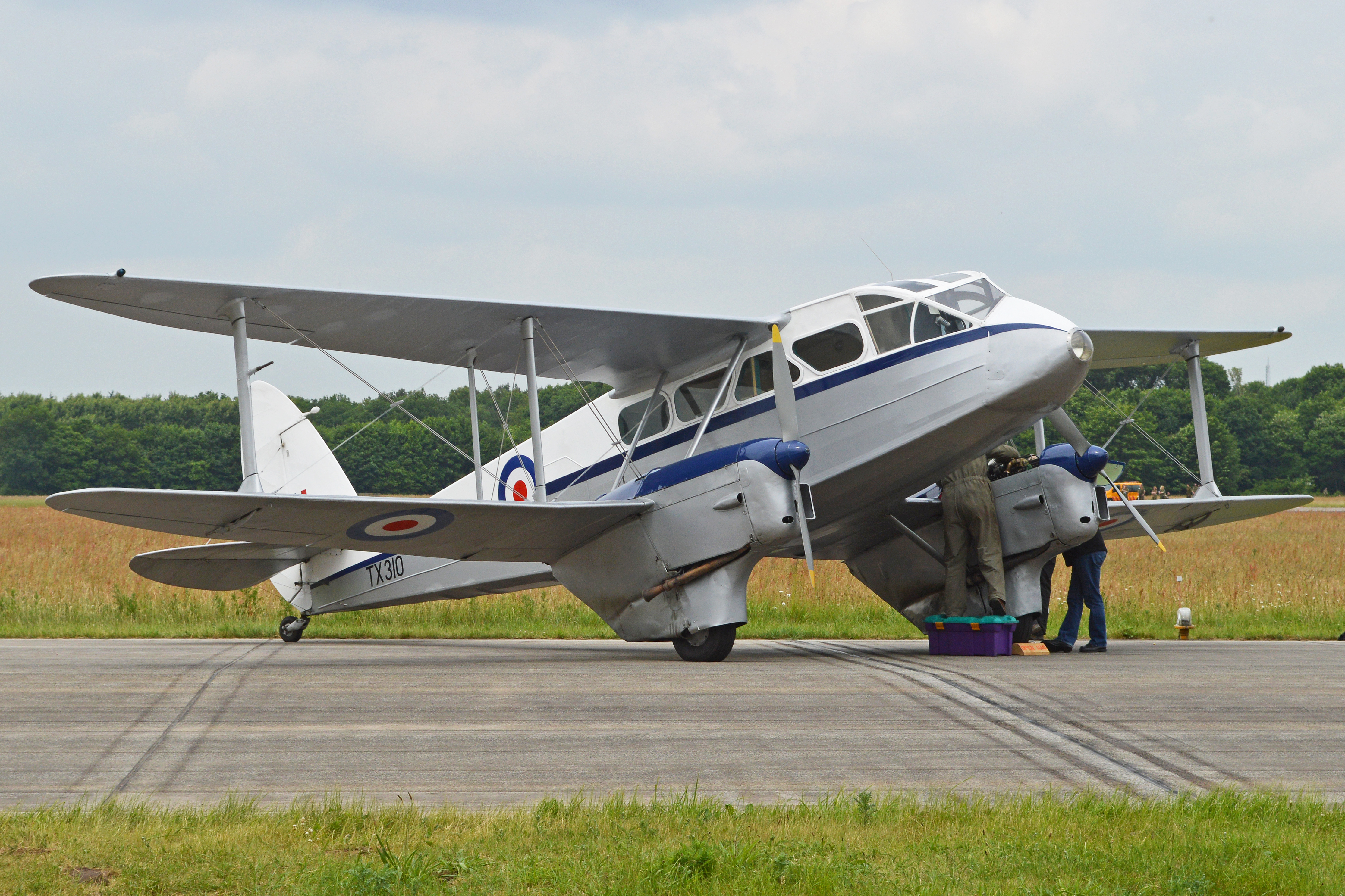 Operated by the 'Classic Air Force' from Newquay in Cornwall, an operation previously based at Coventry as 'Air Atlantique'. c/n 6968. On static display at the '100th Anniversary of Dutch military aviation' airshow. She carried out some local flights after the show. Volkel Air Base, Netherlands. 14-6-2013